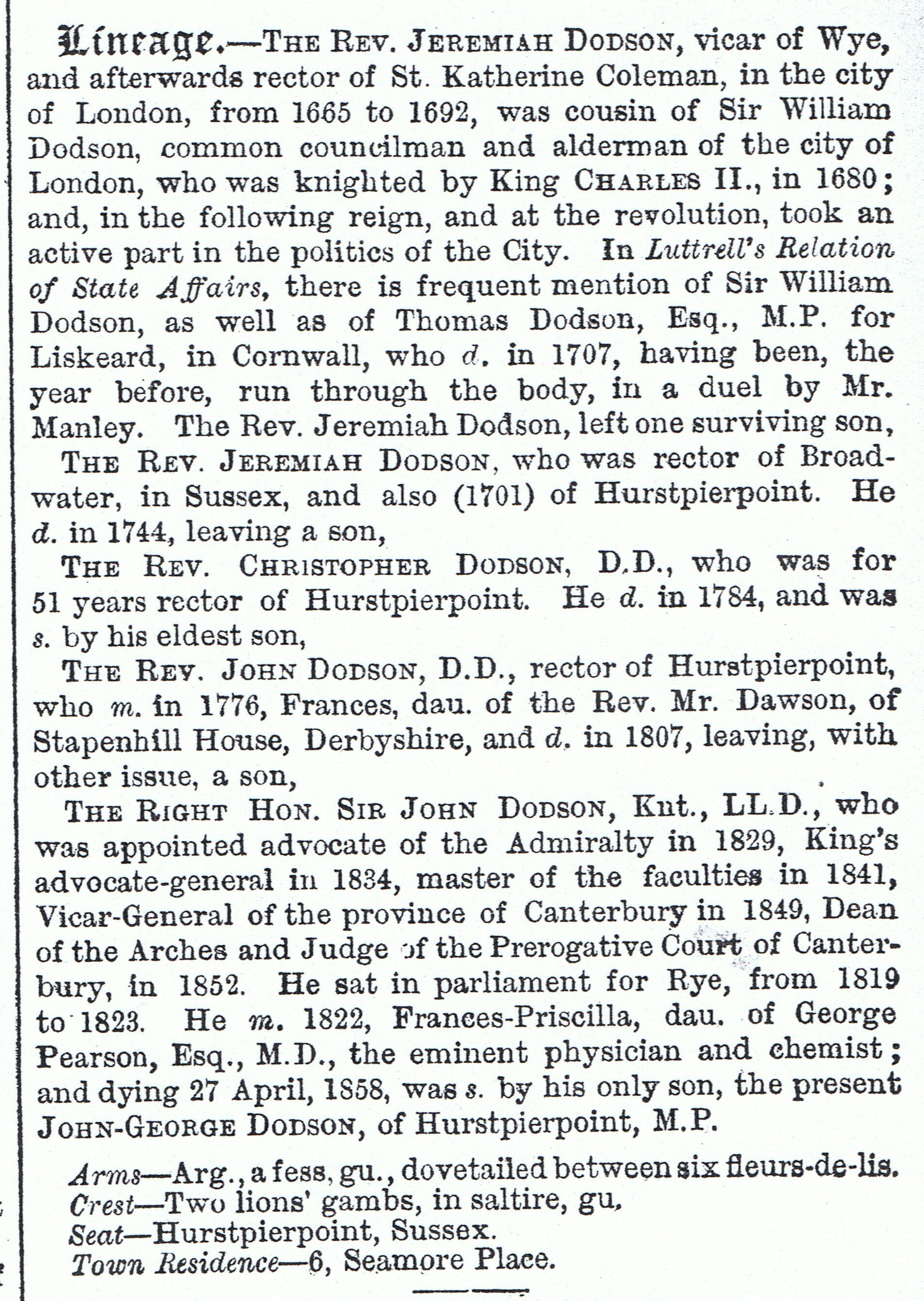 scan of photocopy of book published 1863, Burke's Landed Gentry, part of entry for Dodson of Hurstpierpoint.Rodolph 09:54, 24 October 2007 (UTC)